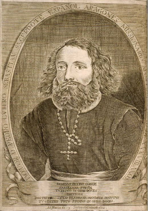 Portrait of Pedro Cubero Sebastian